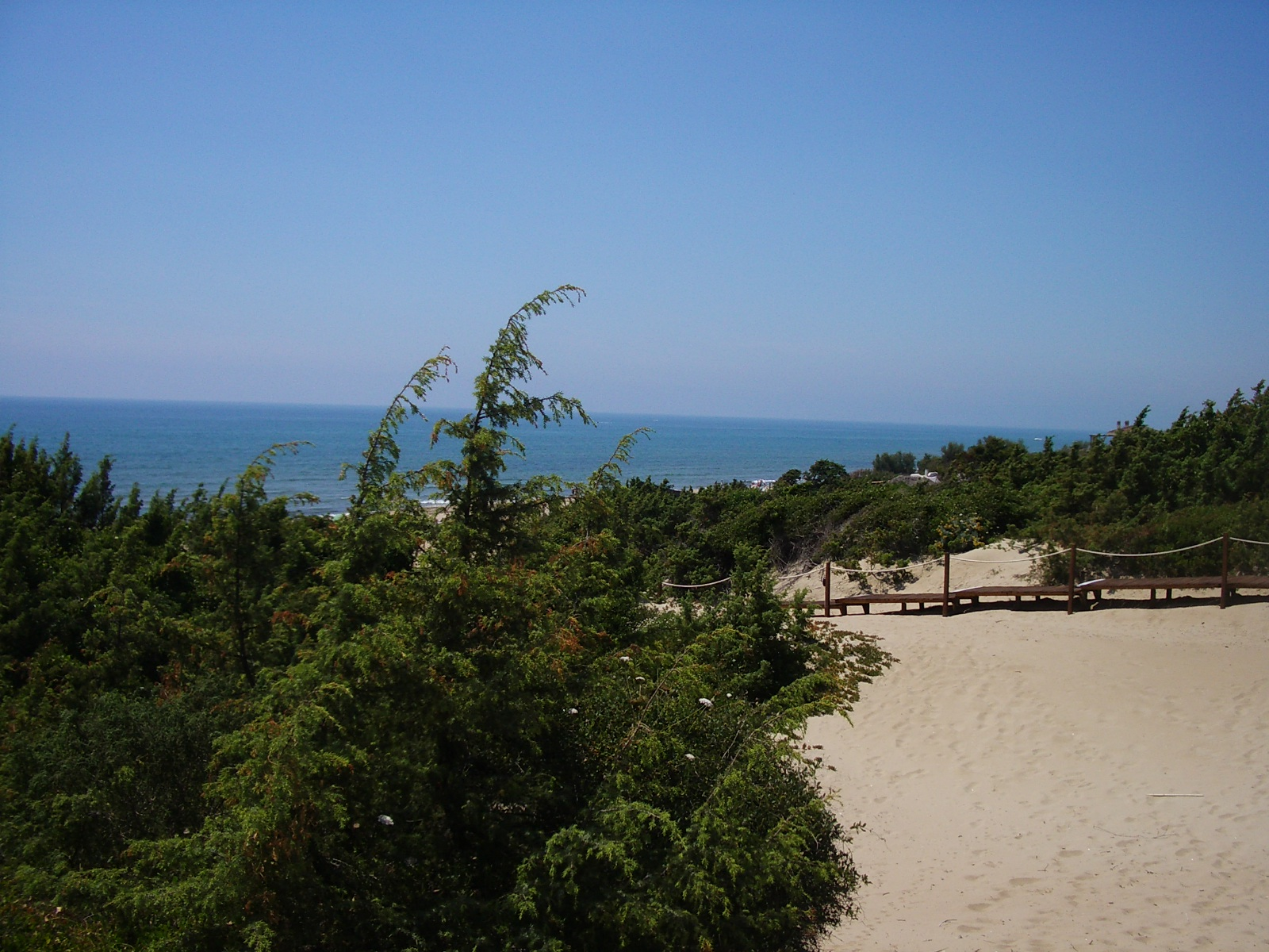 Duna litoranea